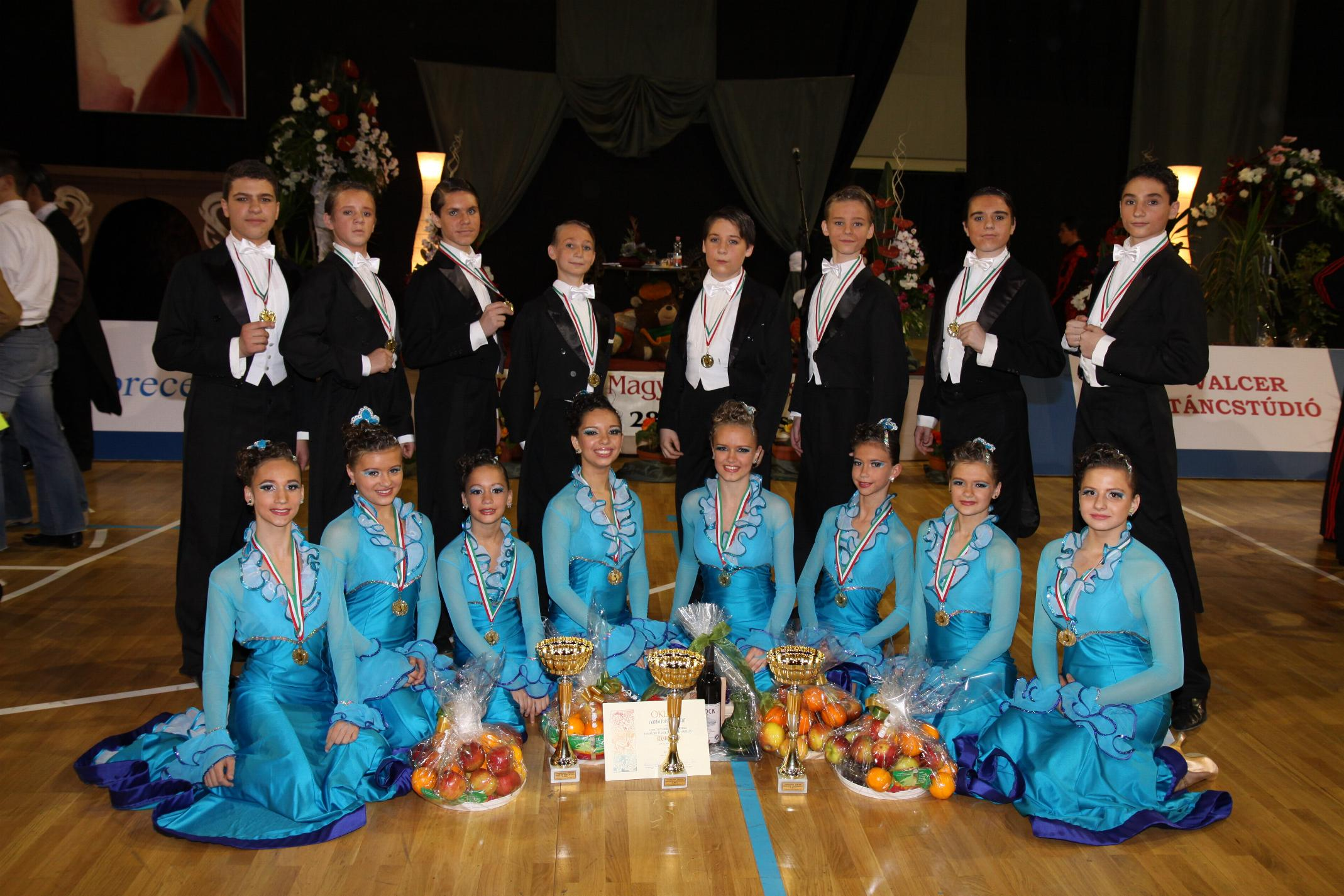 Ködmön Formation Dance Company.